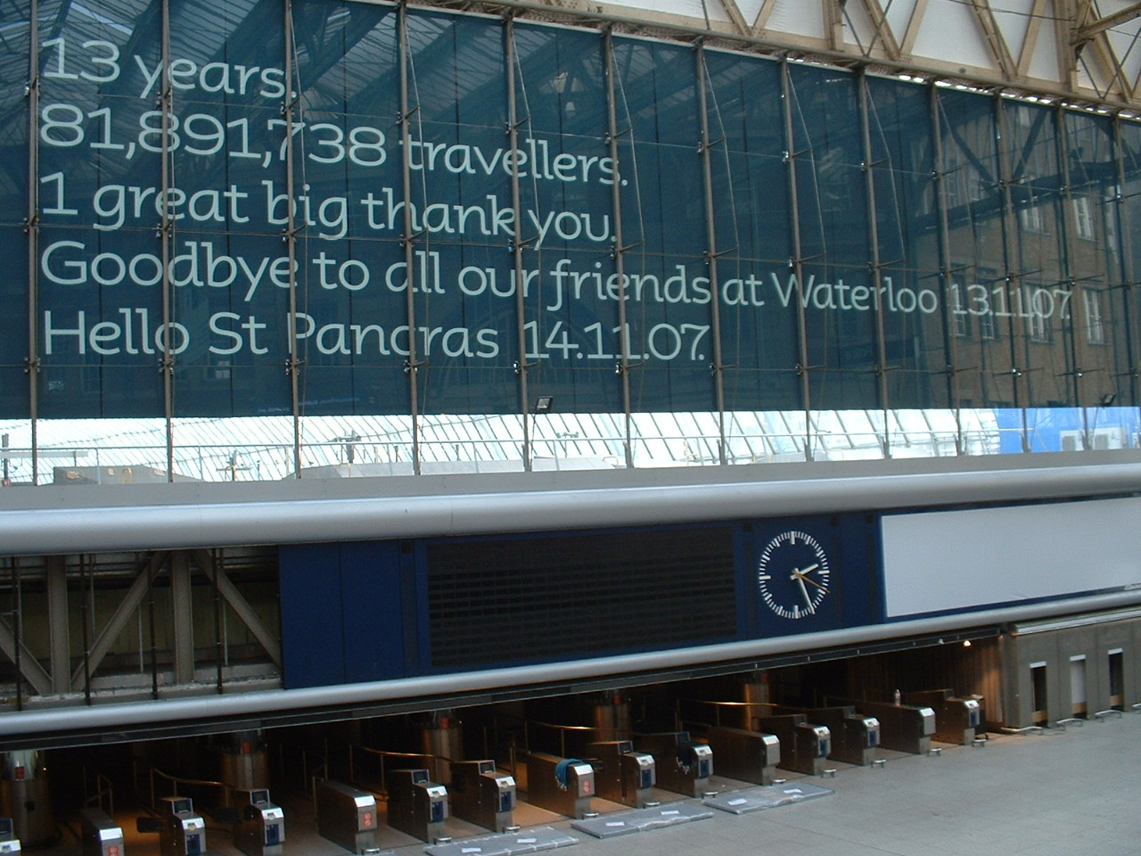 Farewell message at the erstwhile Waterloo International station, since removed.